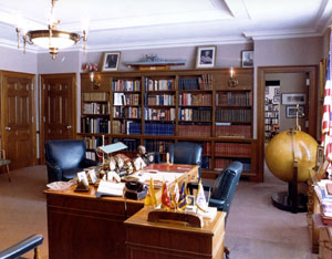 Truman's working office at the Harry S. Truman Presidential Library and Museum.